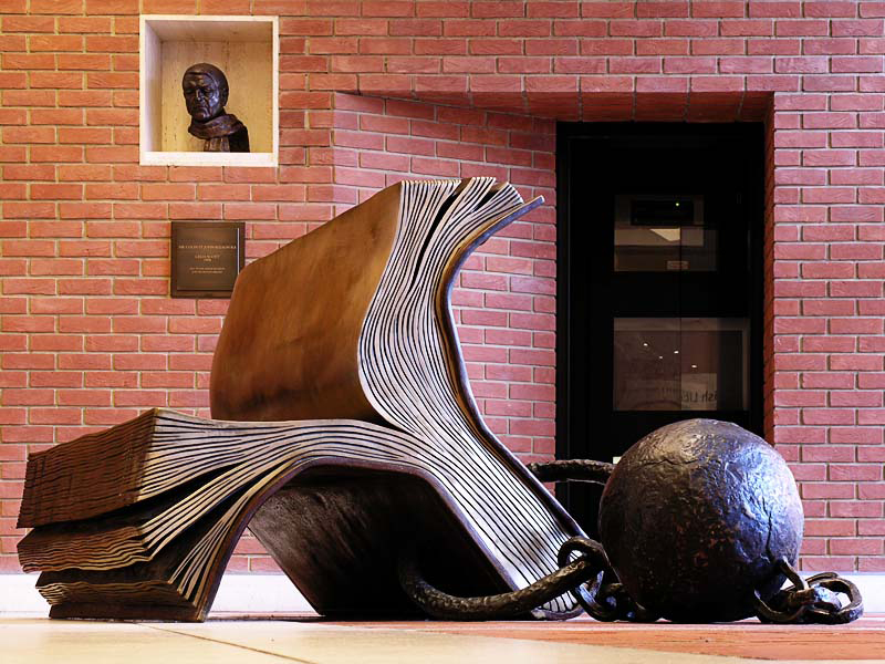 The sculpture Sitting on History (1995) by Bill Woodrow, located in the Entrance Hall of the British Library in London, England, UK. The work, with its ball and chain, refers to the book as the captor of information from which we cannot escape. (The bust at the top left of the photograph is of Colin St John Wilson by Celia Scott (1998), which was a gift from The American Trust for the British Library.)